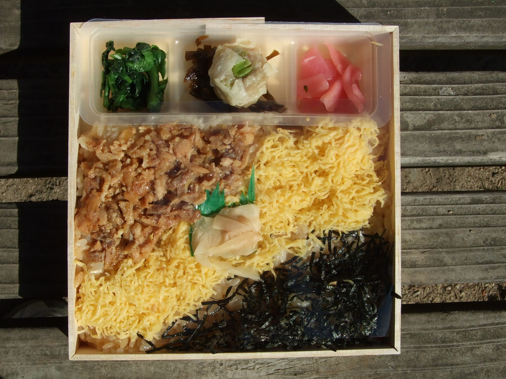 Kashiwameshi (Bento sold in Tosu Station)